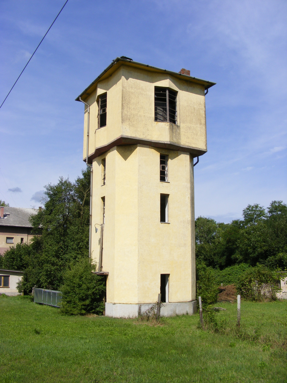 Railway water tower in Beleg, Hungary